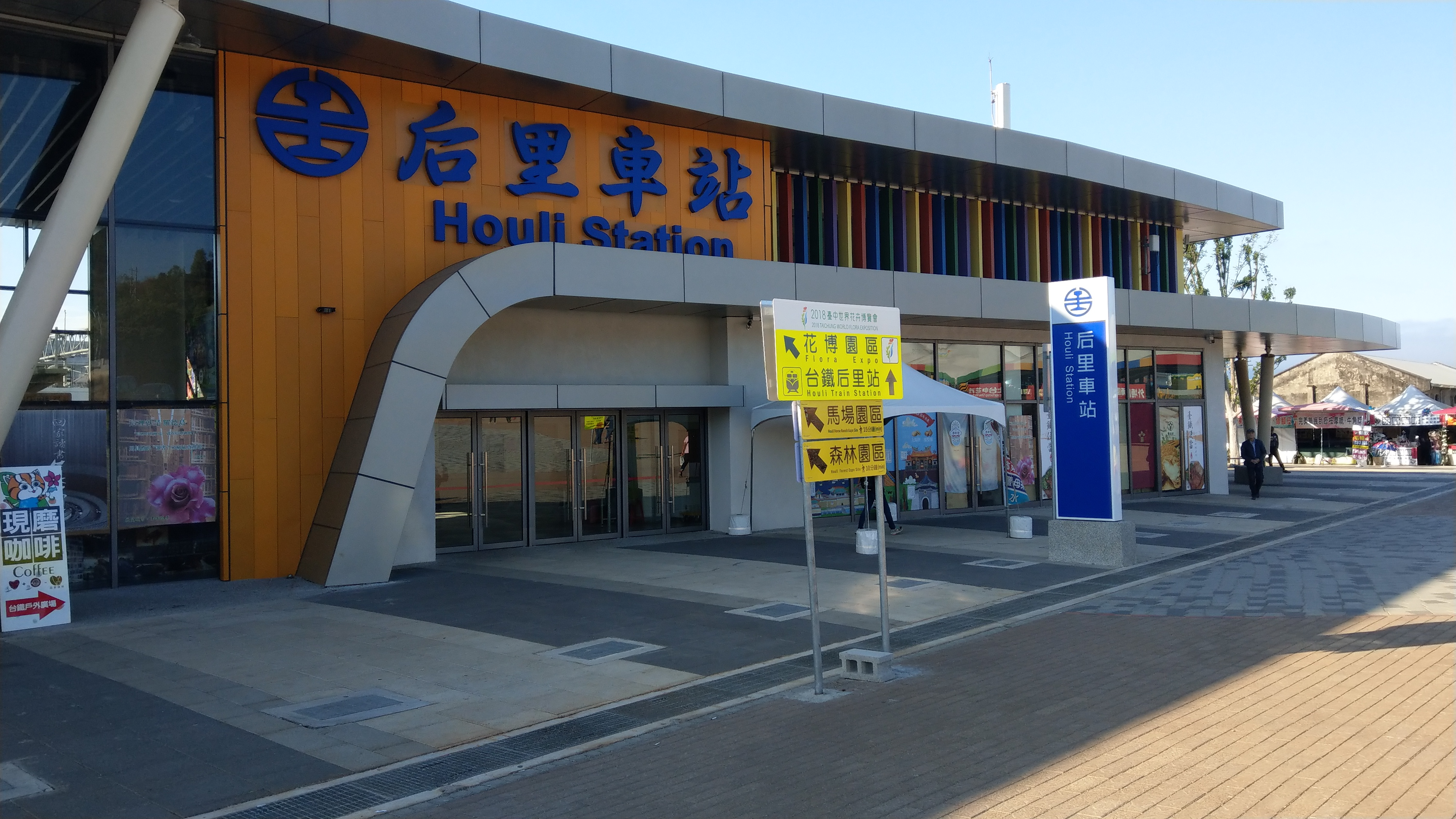 Rear Station of TRA Houli Station.